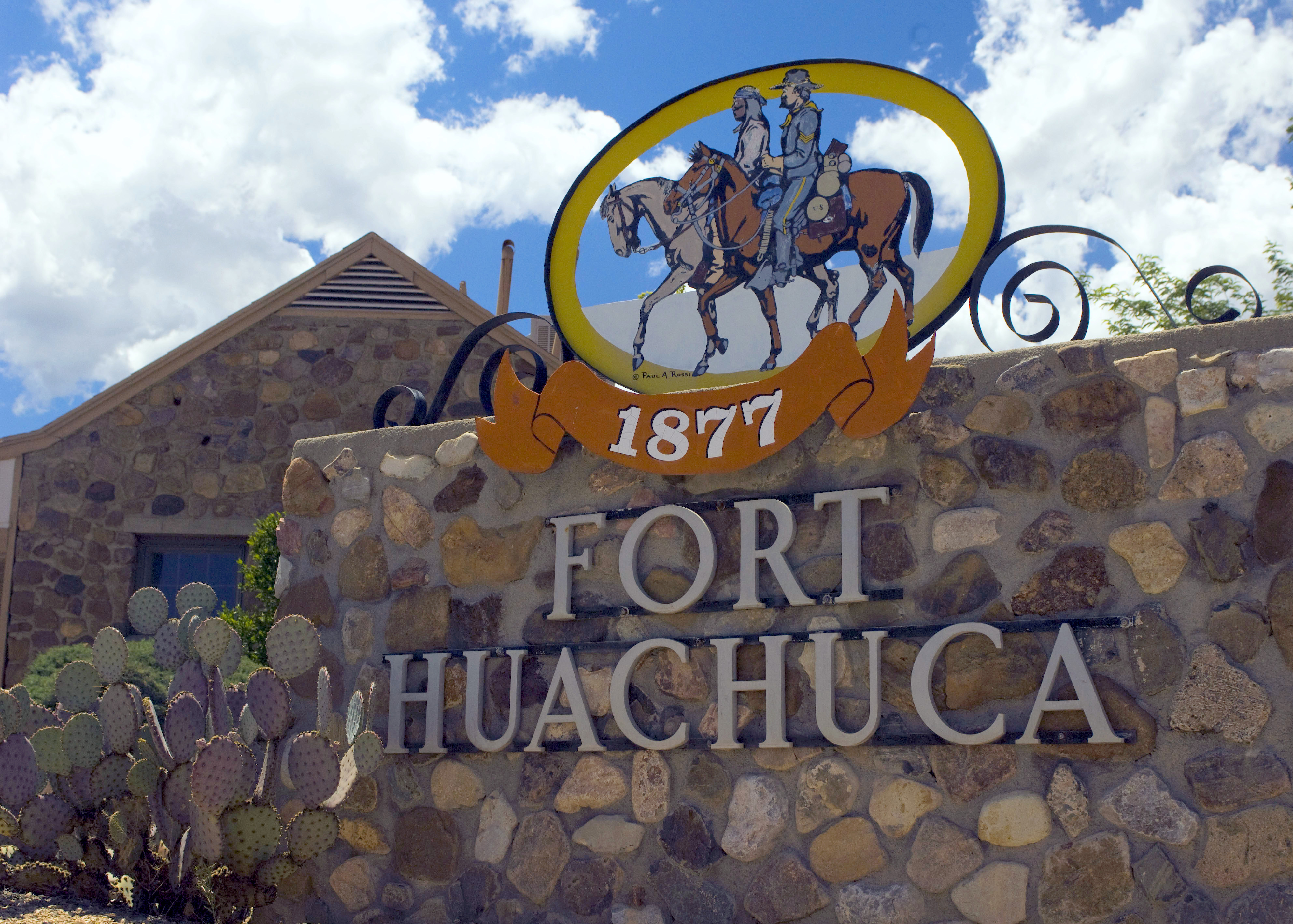 Original caption: Base Expeditionary Targeting and Surveillance System - Combined (BETSS-C) at Empire Challenge 10 Fort Huachuca played a major role in the settlement of the state of Arizona and is host to this year's Empire Challenge 10 (EC10). EC10 is an annual USJFCOM-led, multinational intelligence, surveillance and reconnaissance demonstration that showcases emerging capabilities and provides lessons learned to improve joint and combined interoperability. (USJFCOM Photo by Air Force Staff Sgt. Vanessa Valentine) RELEASED